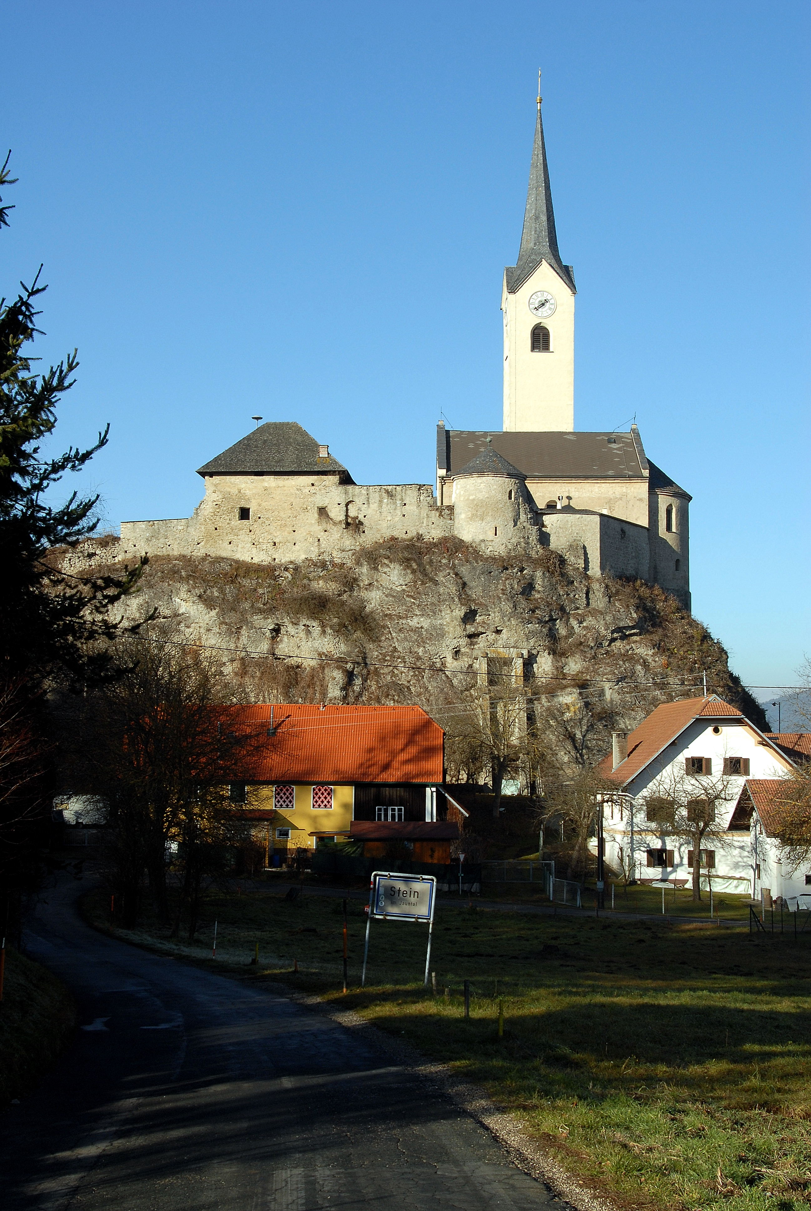 Parish church Saint Lawrence in Stein im Jauntal, municipality Sankt Kanzian am Klopeiner See, district Voelkermarkt, Carinthia, Austria, European Union